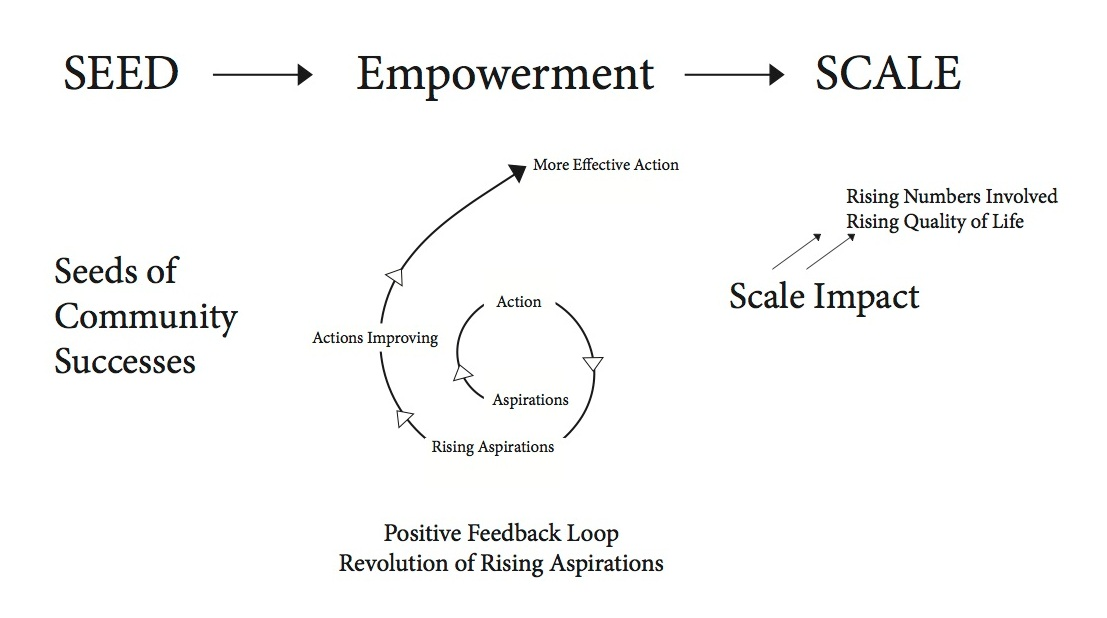 This diagram describes how aspirations prompt actions that then lead to new aspirations. As this feedback functions, it can lead to social change.